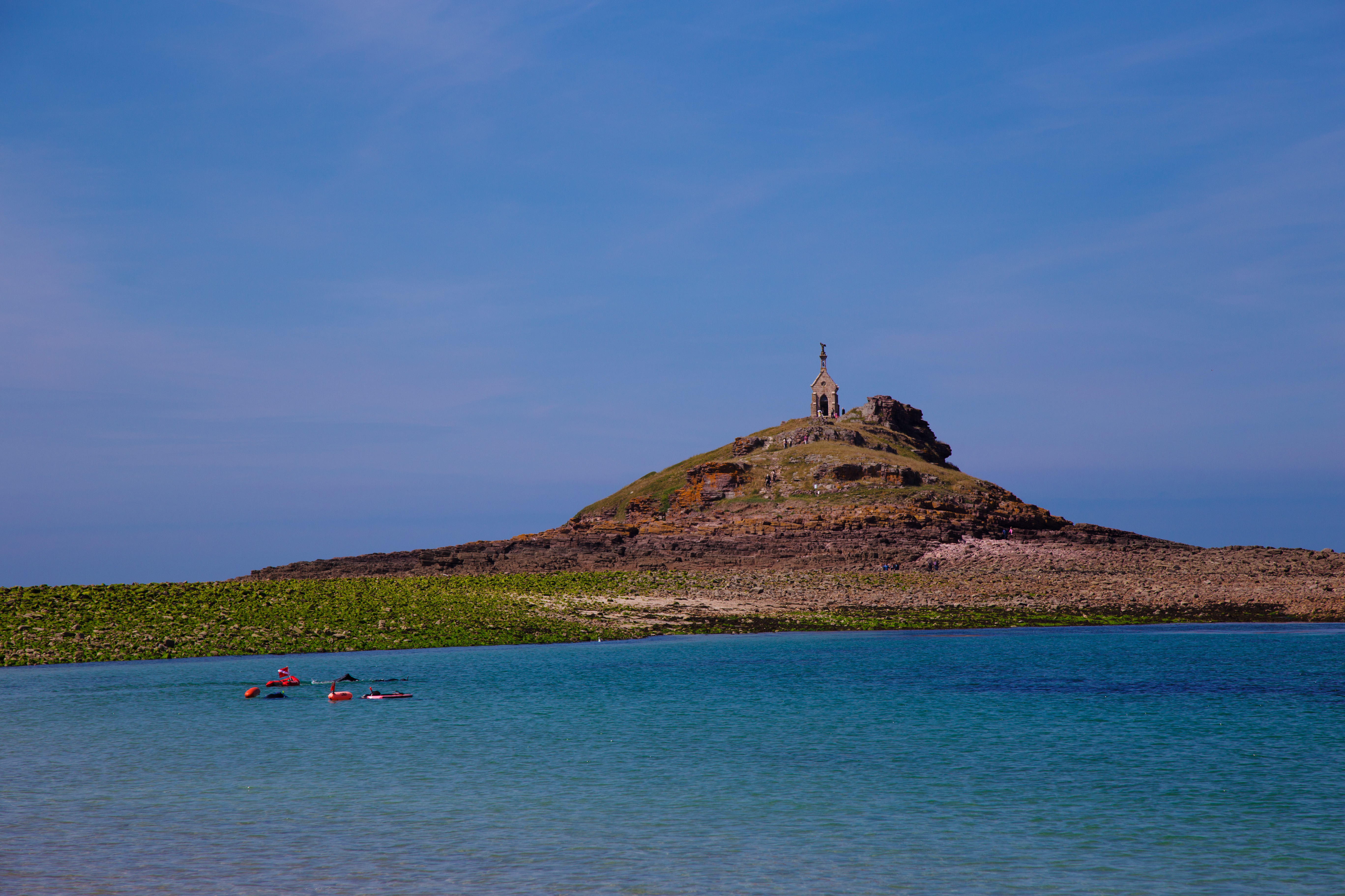 The Saint Michel islet is located in the town of Erquy, near the resort of Sables-d'Or-les-Pins, in the department of Côtes-d'Armor, France. It is only accessible on foot at low tide. At its peak is located a small chapel dedicated to Saint Michael, built in 1881. It is the place of a local pilgrimage on September 29 (the day of the Saint Michael).